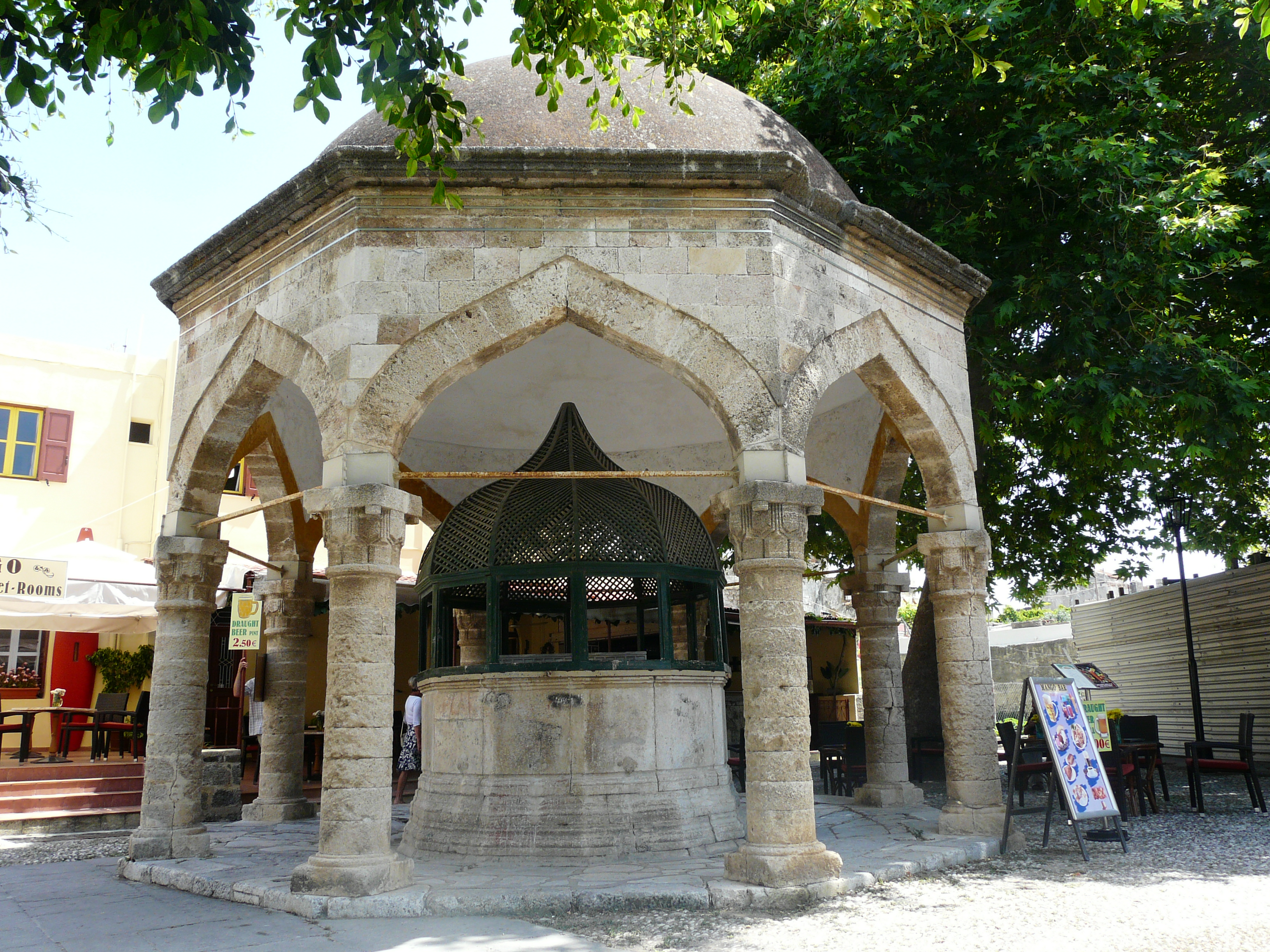 Ibrahim Pasha Cami mosque in the city of Rhodes.